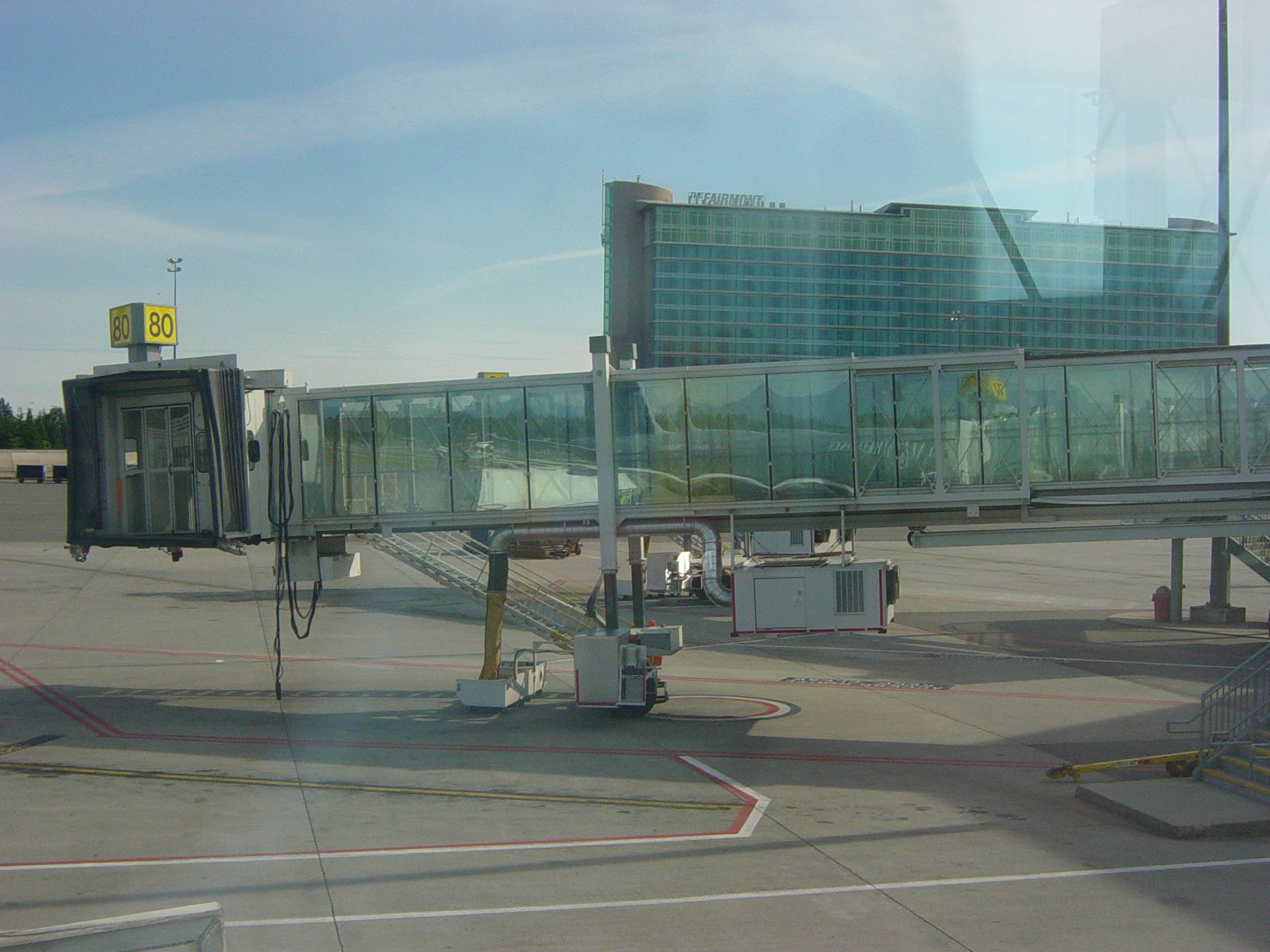 Jetway used for passenger loading at larger airports.